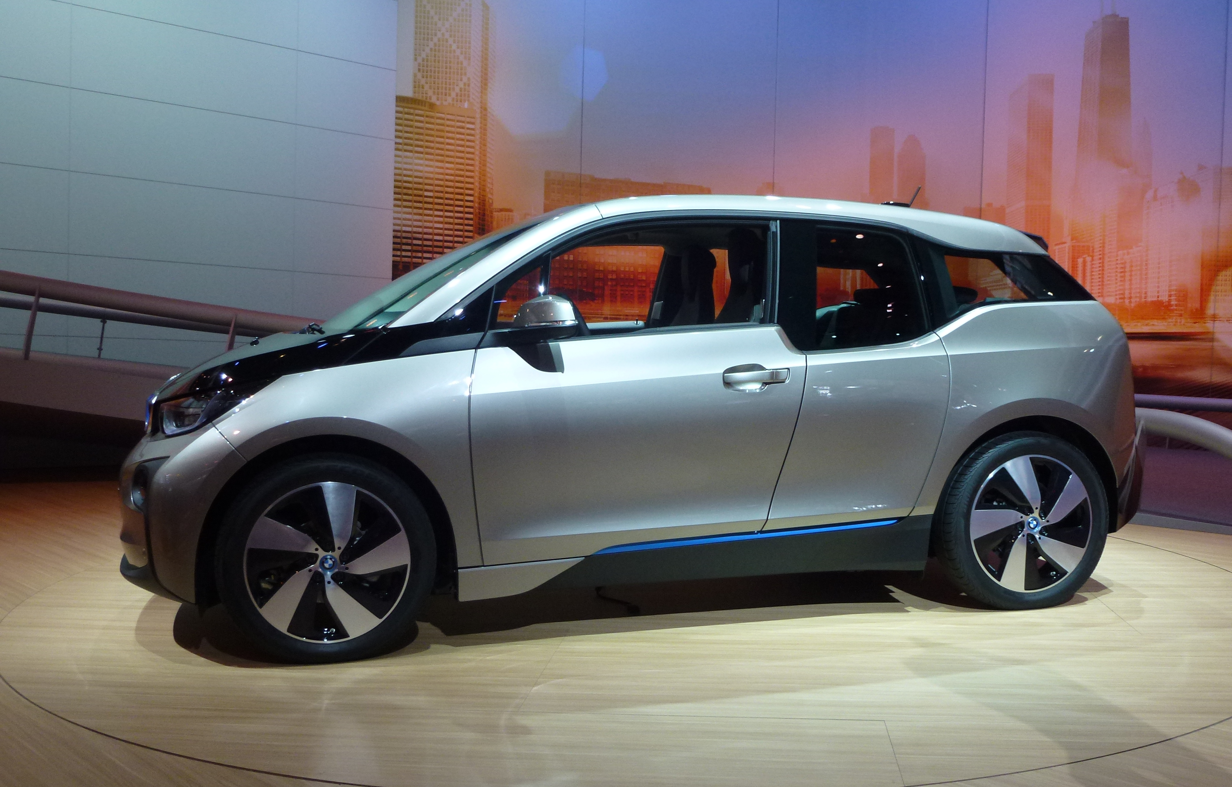 BMW i3 Car